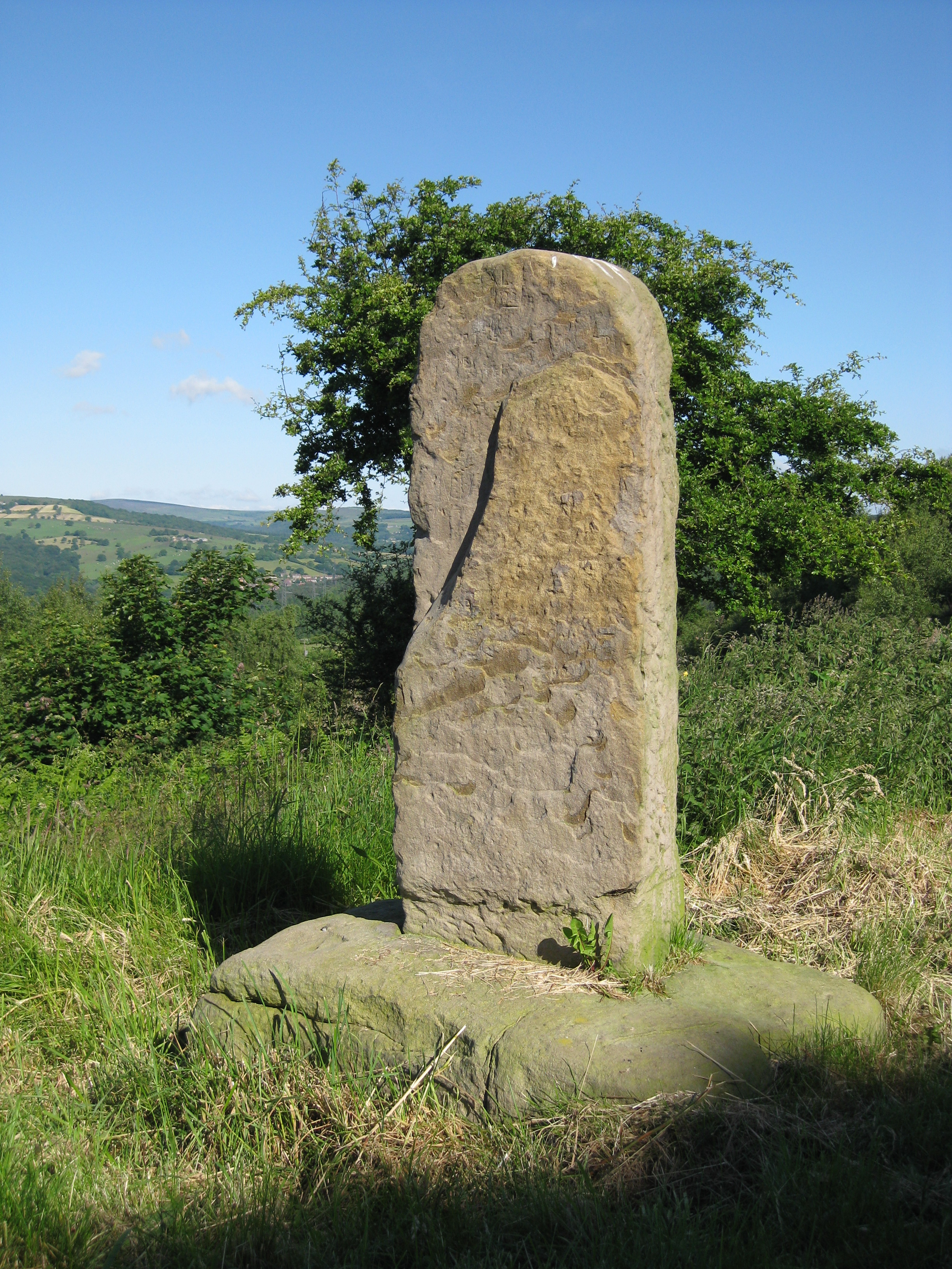 The Birley Stone, off Oughtibridge Lane, Sheffield. Possibly a former cross. Looking northwest.